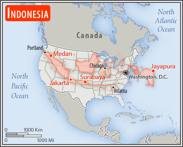 Comparison of the areas of two country. The area of Indonesia with biggest cities (red) overlay the area of the United States of America (gray background).